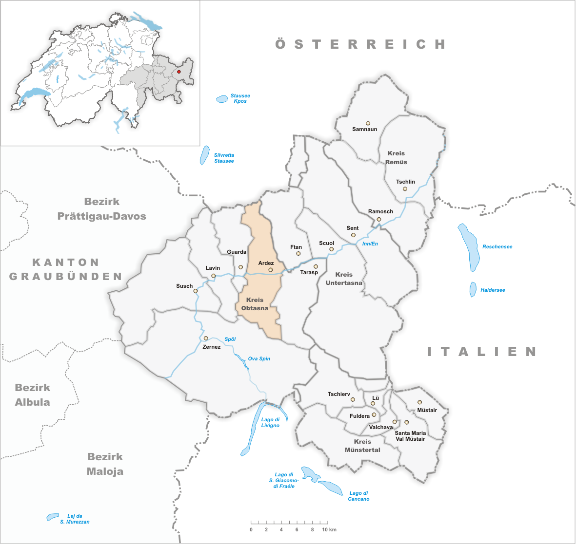 Municipality Ardez